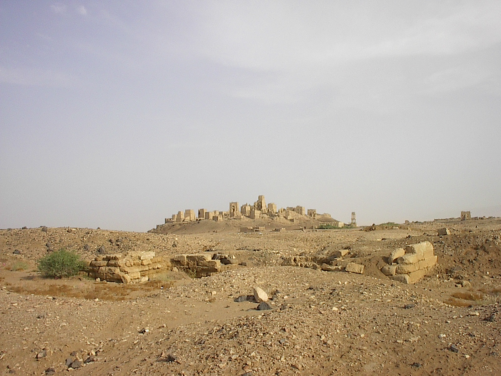 Old Marib, Yemen. The ruins of multi-story mud-brick buildings can be seen on the top of a mound, or tell, formed from the accumulated man-made deposits of the central part of the ancient city. While the city has been inhabited since at least the firast millennium BCE, the standing buildings are of relatively recent date, some still inhabited (ca. 2006). The exposed stone walls in the foreground were part of an outlying area of the ancient city. The modern city of Marib is located about 3.5 kilometers to the north.